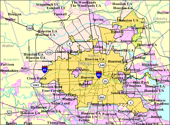 Map of Houston from the 2000 Census